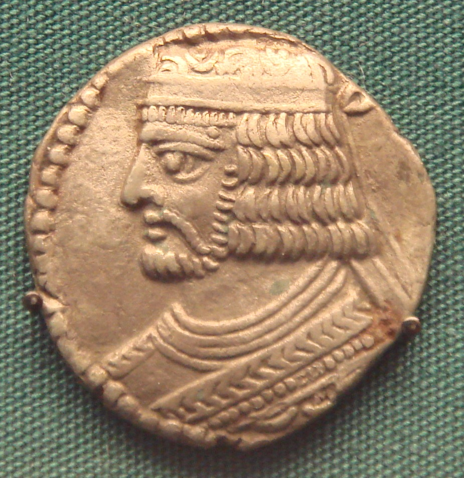 Vologases I of Parthia.